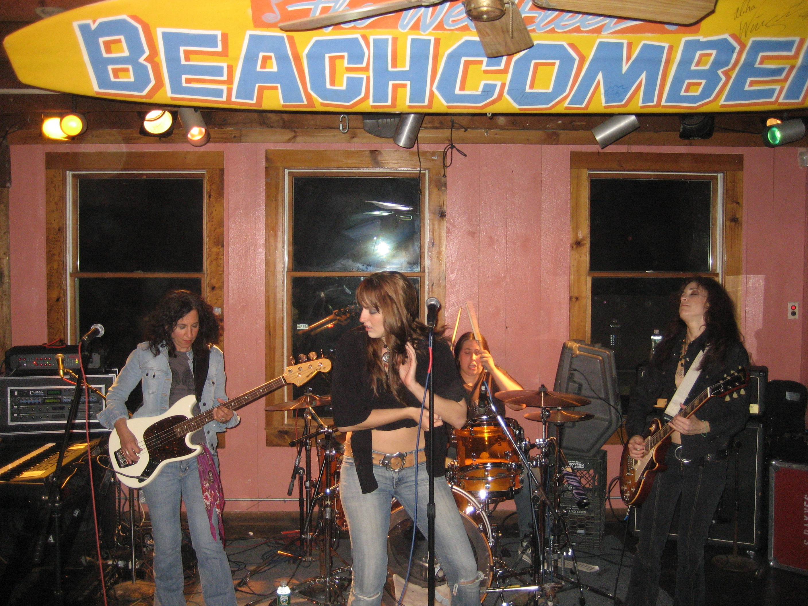 Lez Zeppelin at The Beachcomber, 20007-05-27